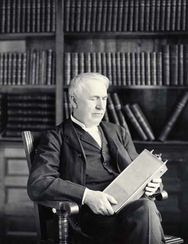 Thomas Alva Edison with his Nickel Iron Battery in 1910